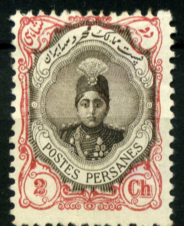 Ahmad Shah on Iranian stamp.